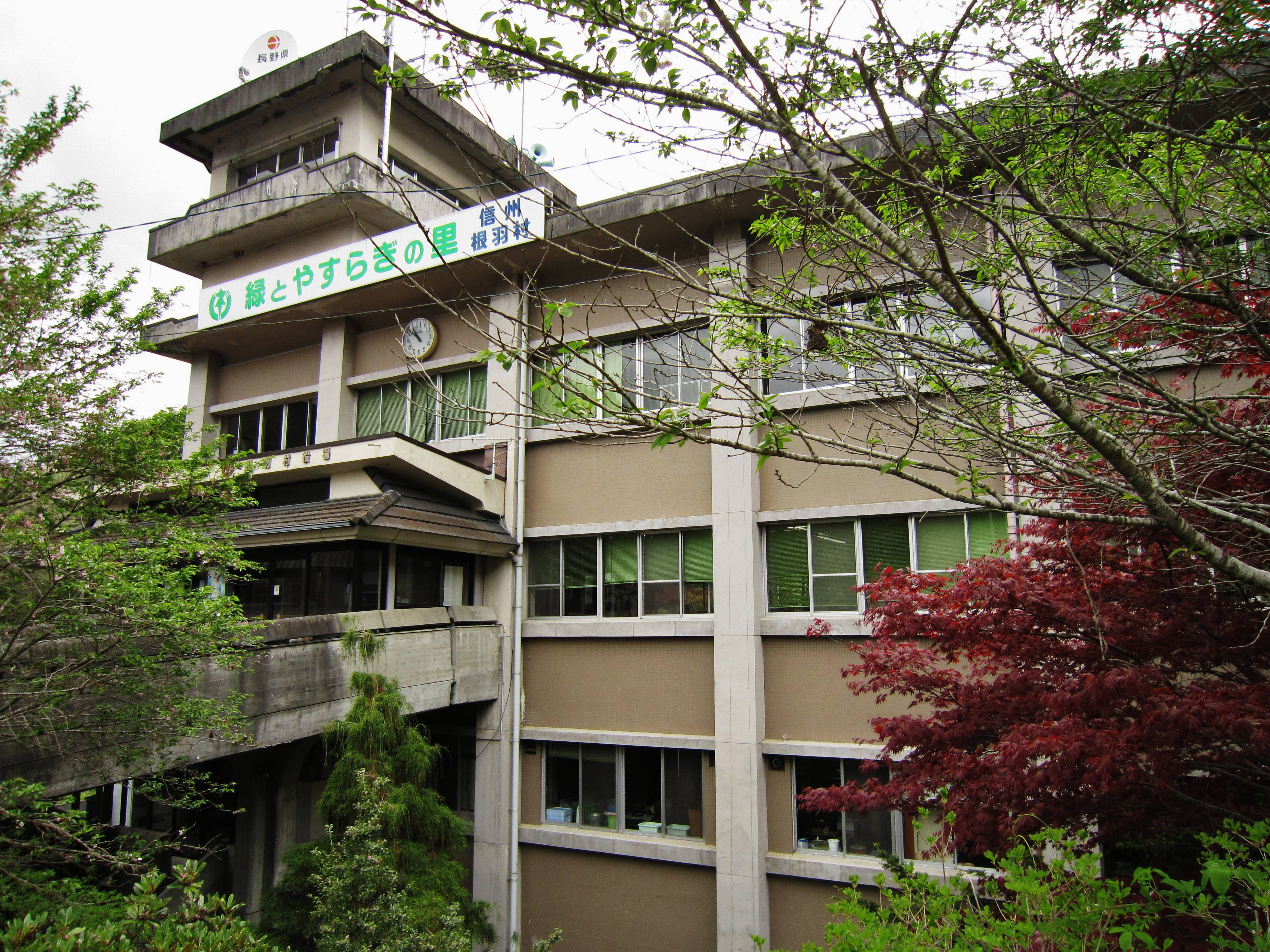 Neba village office.